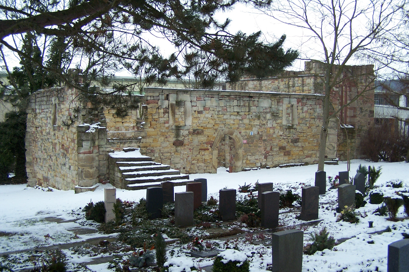 The ruins of the Husen-Kirche.